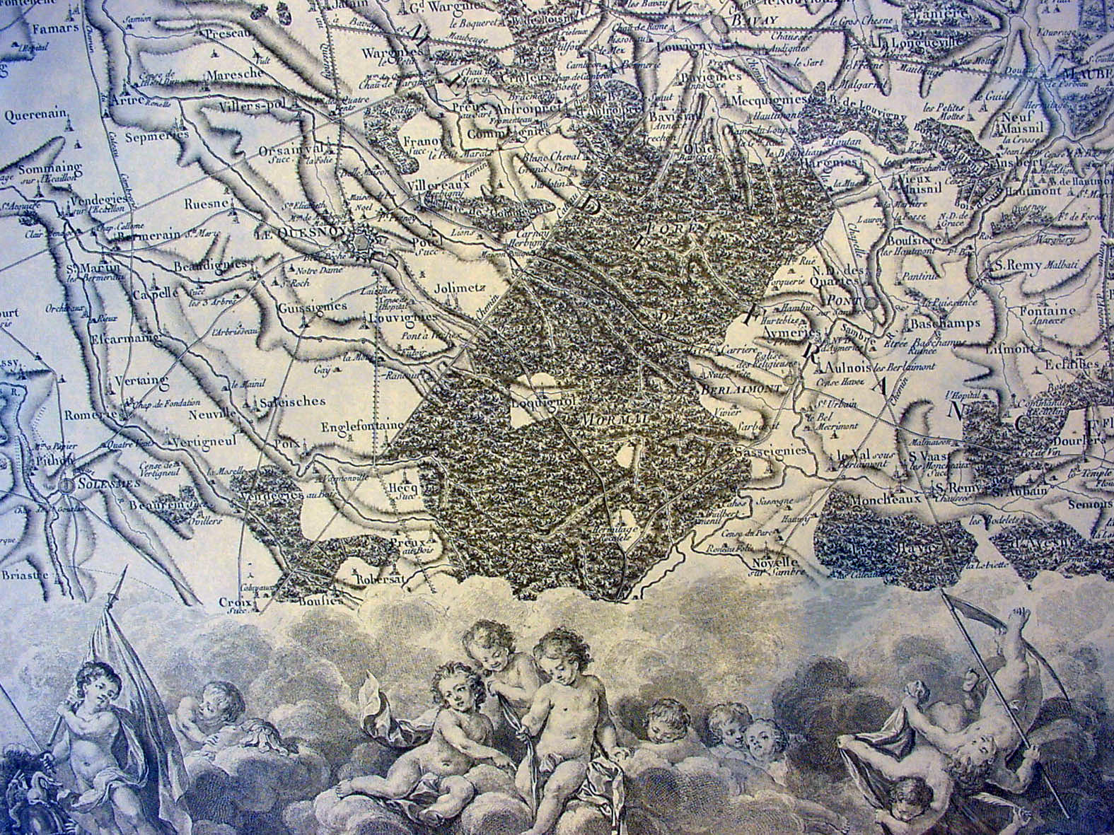 Old map of forest of Mormal (almost 10,000 hectares) in the north of France, (by Cassini ?) (1789 ?).